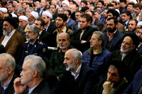 Ayatollah Seyyed Alireza Ebadi in Govt officials and participants in Islamic Unity Conference meeting with Ayatollah Khamenei